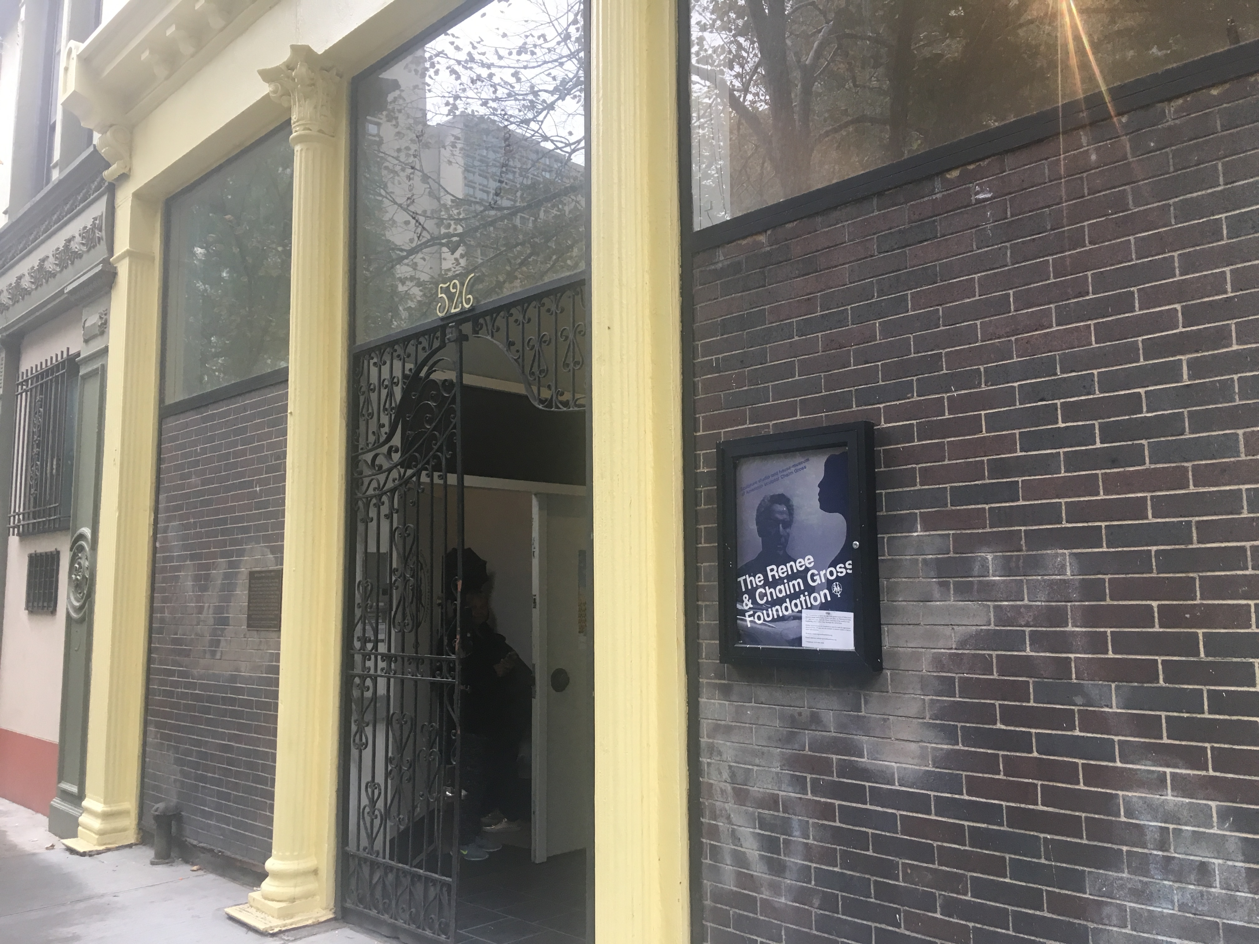 Renee and Chaim Gross Foundation house in Greenwich Village, New York City